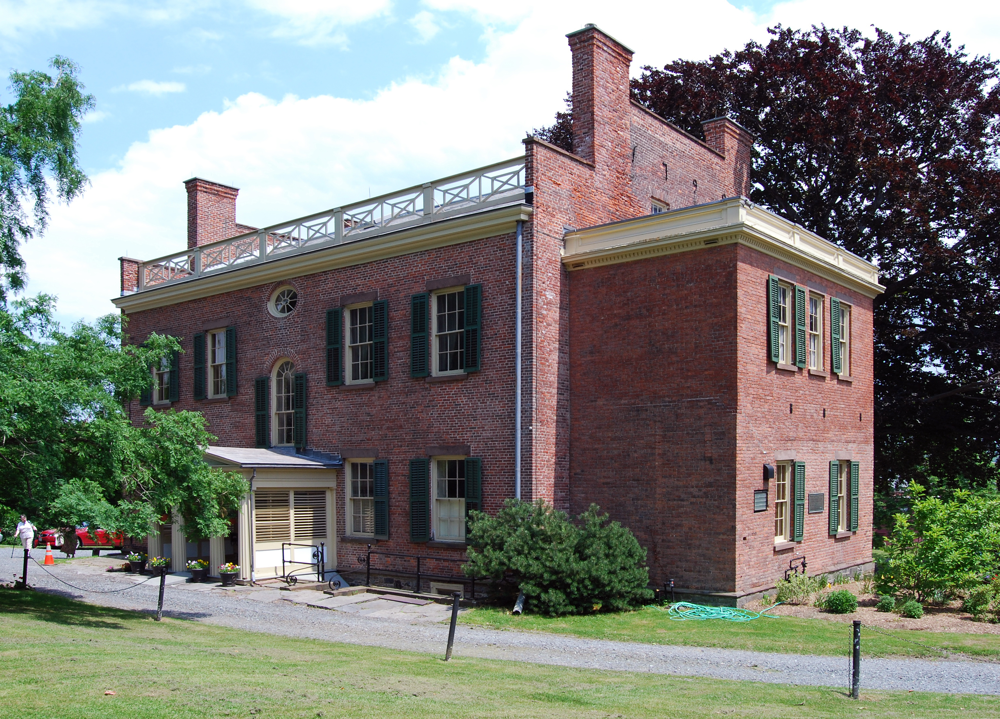 Rear elevation of the Ten Broeck Mansion, located in Albany, New York, United States and built in 1797. Former home to Abraham Ten Broeck (1734—1810) and currently home to the Albany County Historical Association. Added to the National Register of Historic Places in 1971.